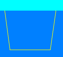 A square dive profile